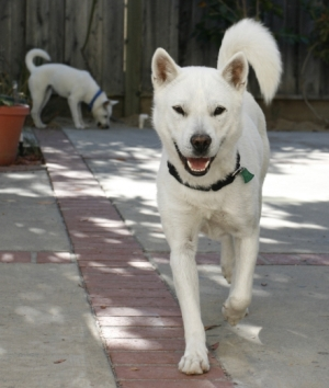 Adult male (front) and adolescent female (back) Kishu Inu